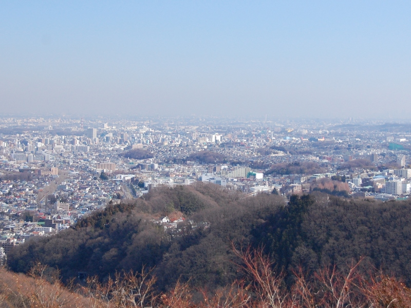 en：View of the Hachioji urban district which was seen from the Konpira-dai（Takao-san） ja：高尾山金比羅台から望む八王子市街地 location: Hachioji caption: Hachioji urban district（Takao-san Konpira-dai）